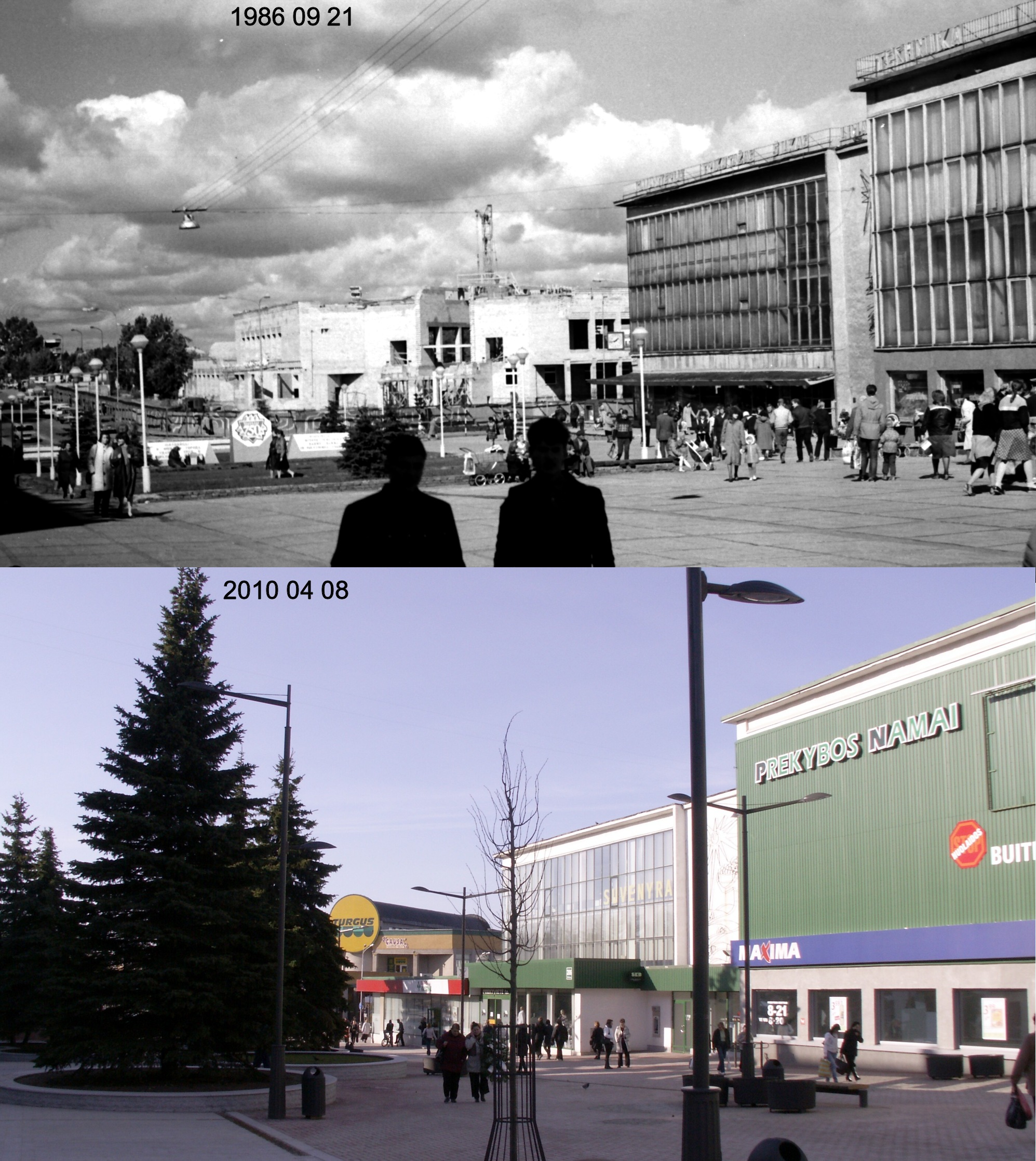 Vilniaus str. in Šiauliai 1986-2010, Lithuania